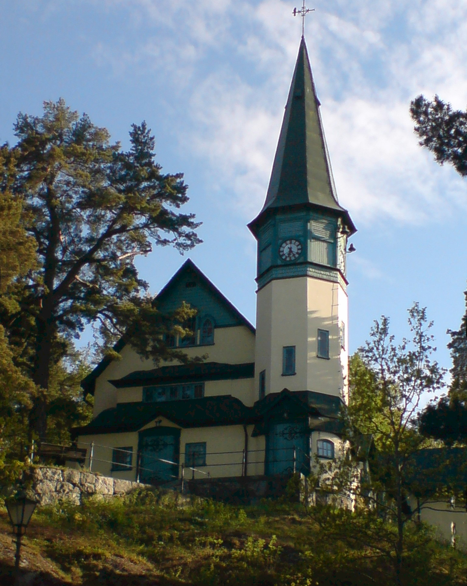 The chapel in Djursholm, Sweden